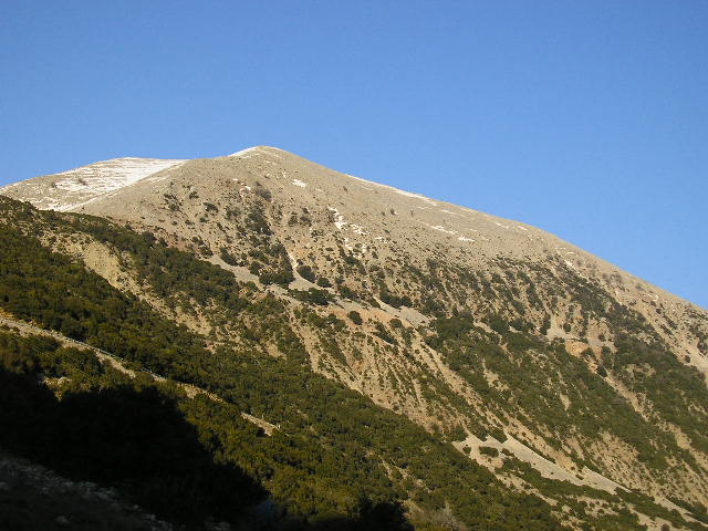 Mt. Agios Constantinos 1470m in Aetolia-Acarnania